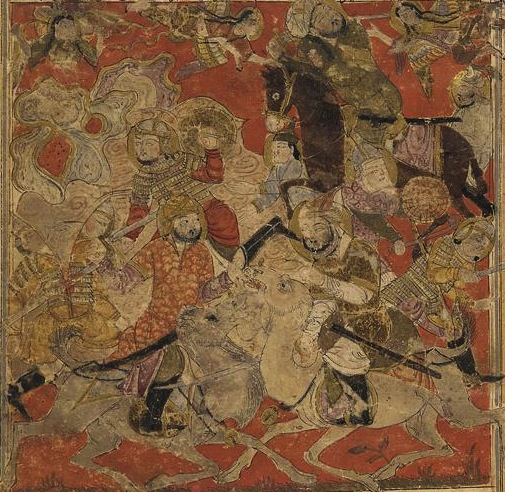 Folio from a Tarikhnama (Book of history) by Balami